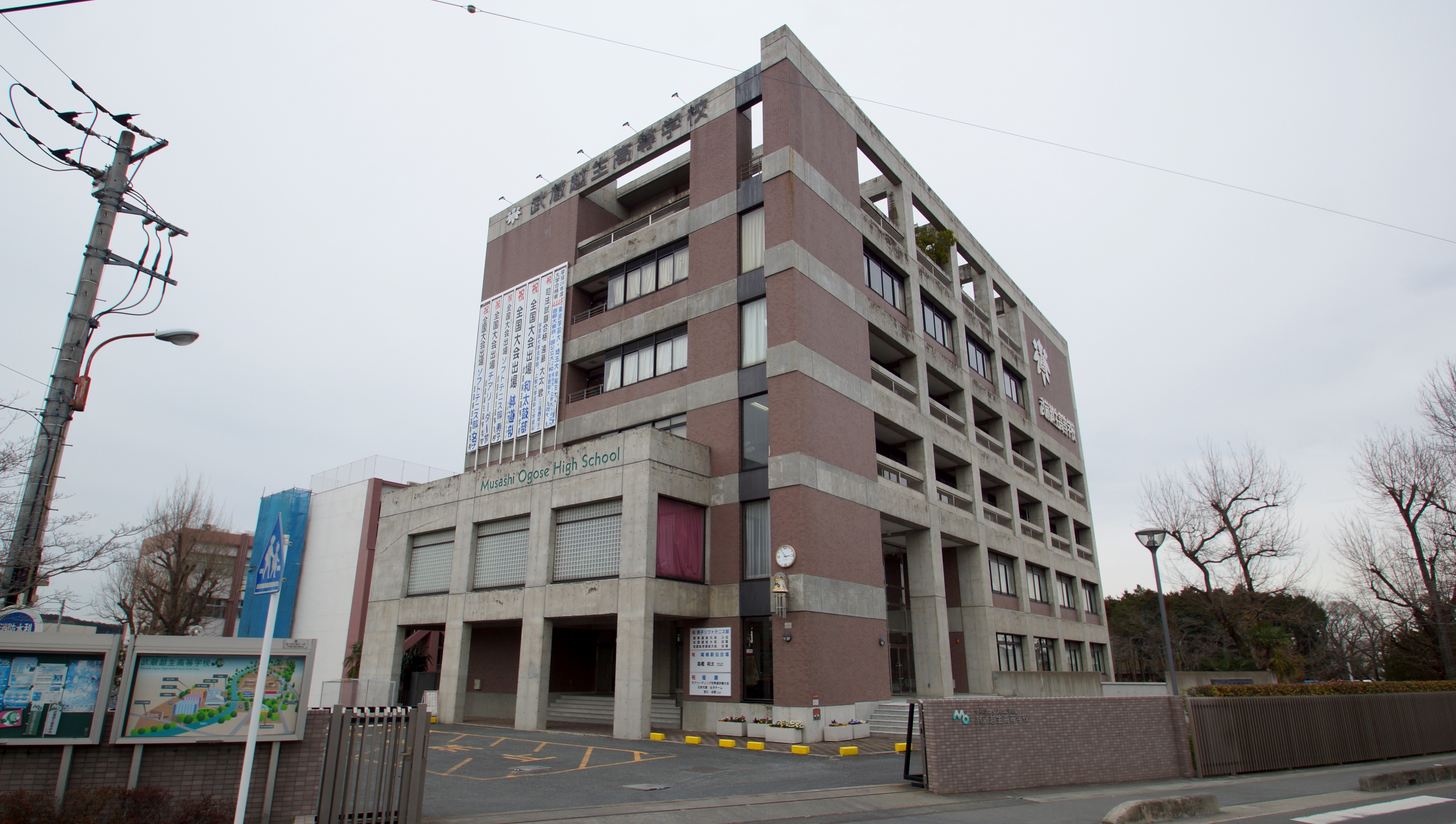 Musashi Ogose High School in Ogose, Saitama Prefecture, Japan